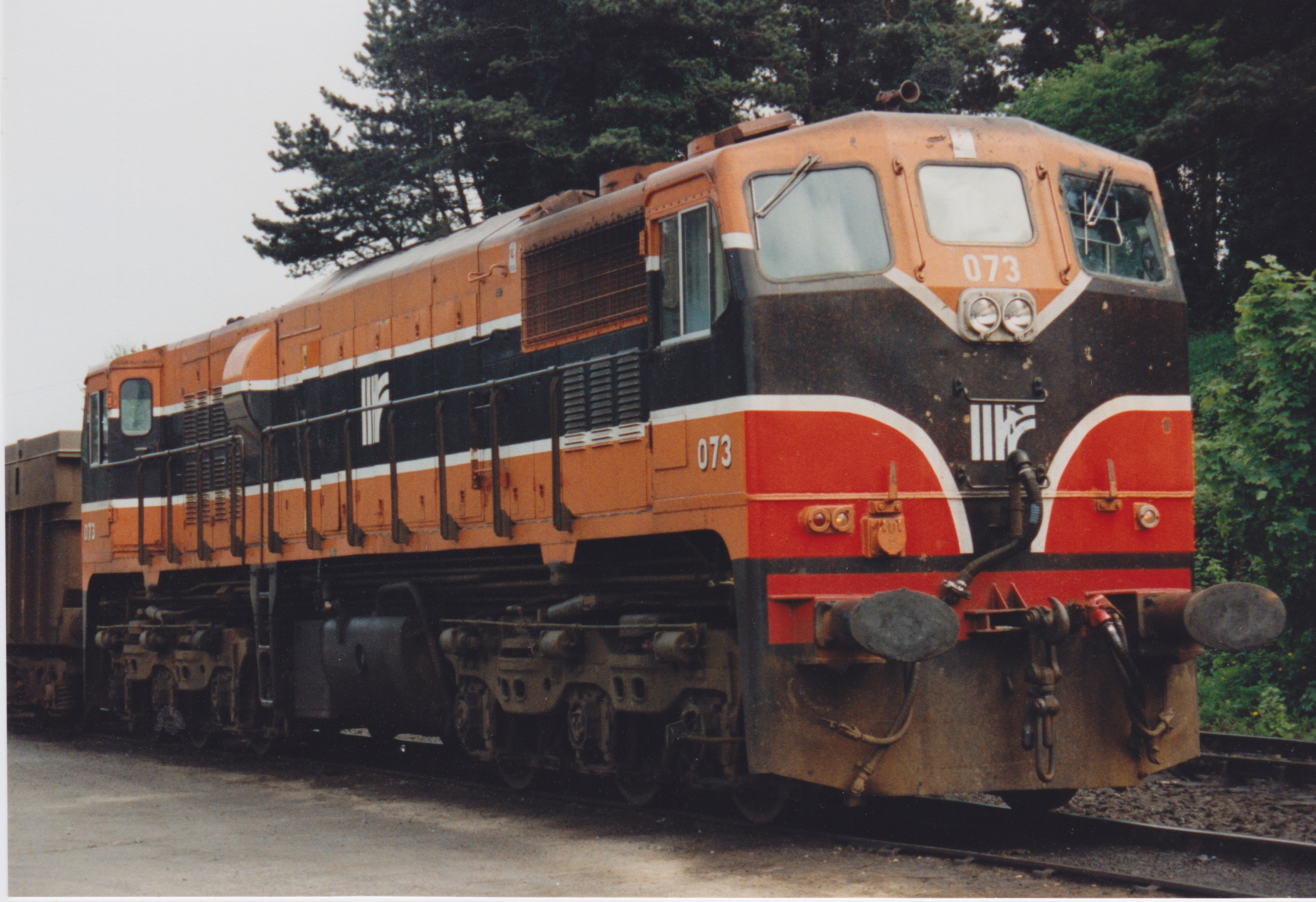 073 June 1995 Drogheda County Louth